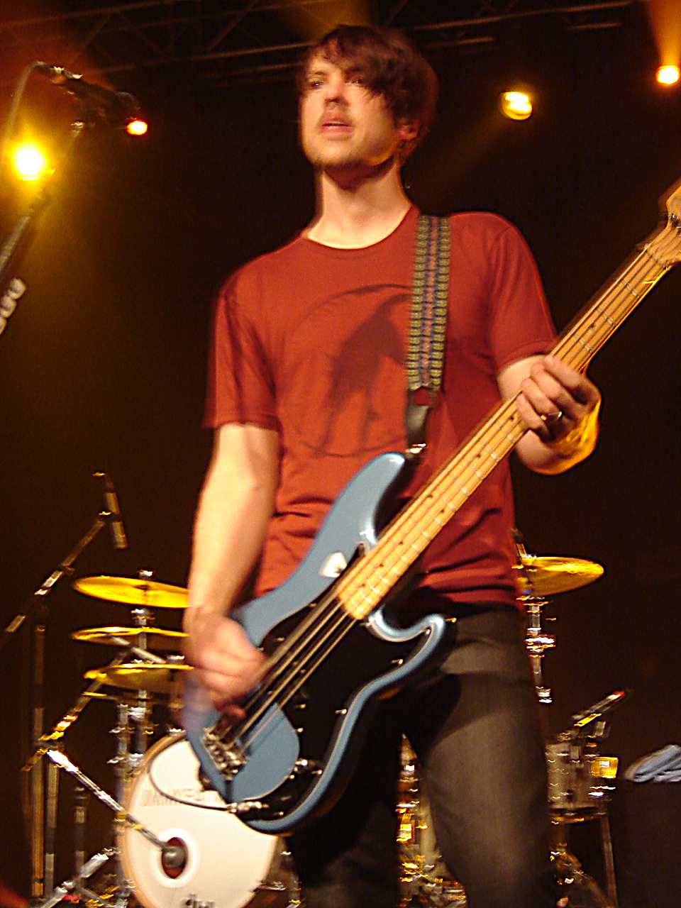 Rick Burch, Jimmy Eat World bass player during a gig in Schlachthof, Wiesbaden, Germany.